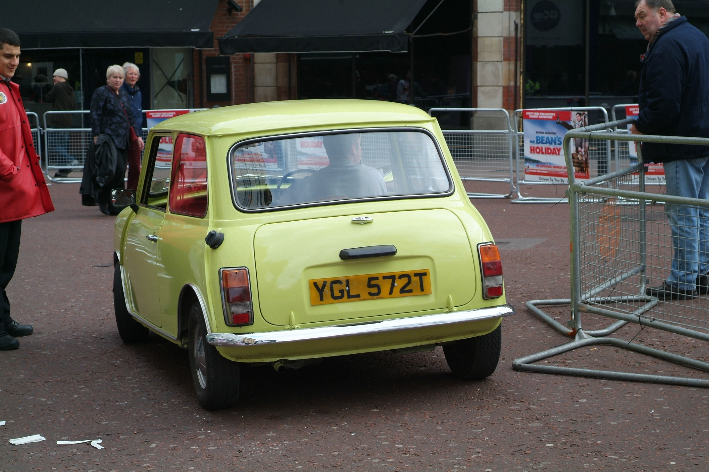 Mr bean's Mini at Mr bean's Holiday premiere.jpg